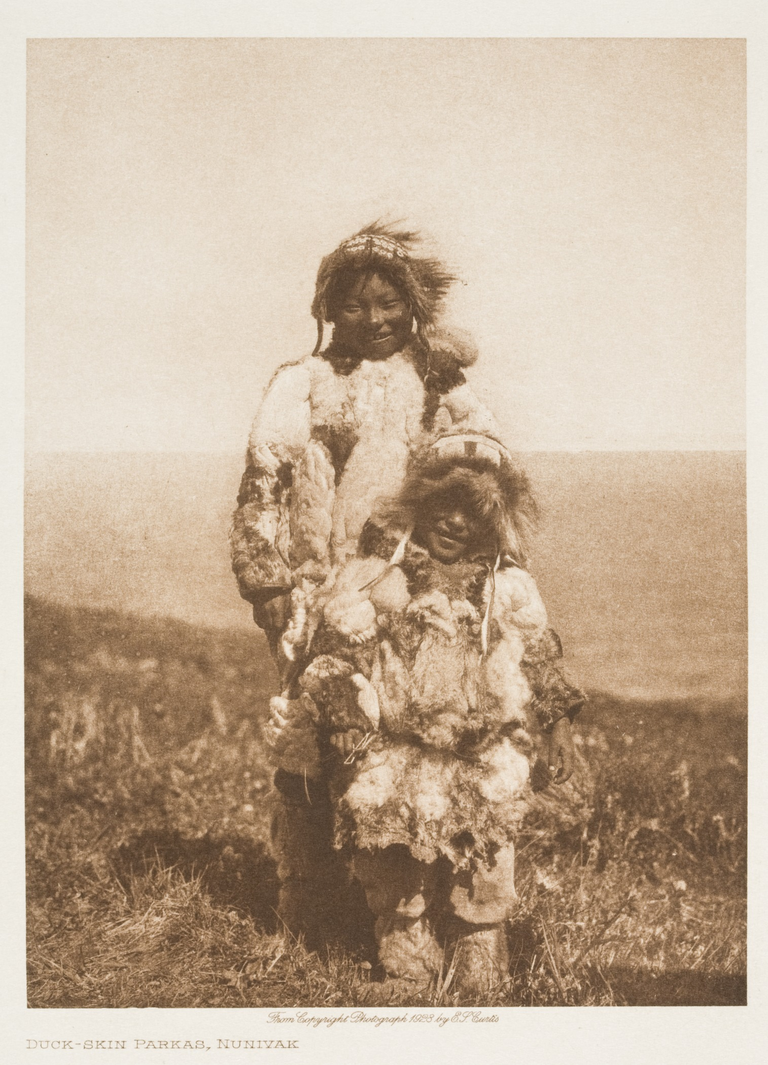 United States, 1928 Photographs Photogravure on paper Gift of Mark and Pam Story (AC1997.271.47) Photography